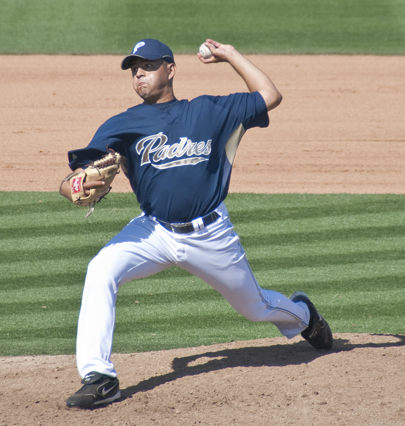 Cesar Ramos left handed pitcher for the San Diego Padres spring training in Peoria, Arizona, March 2009.